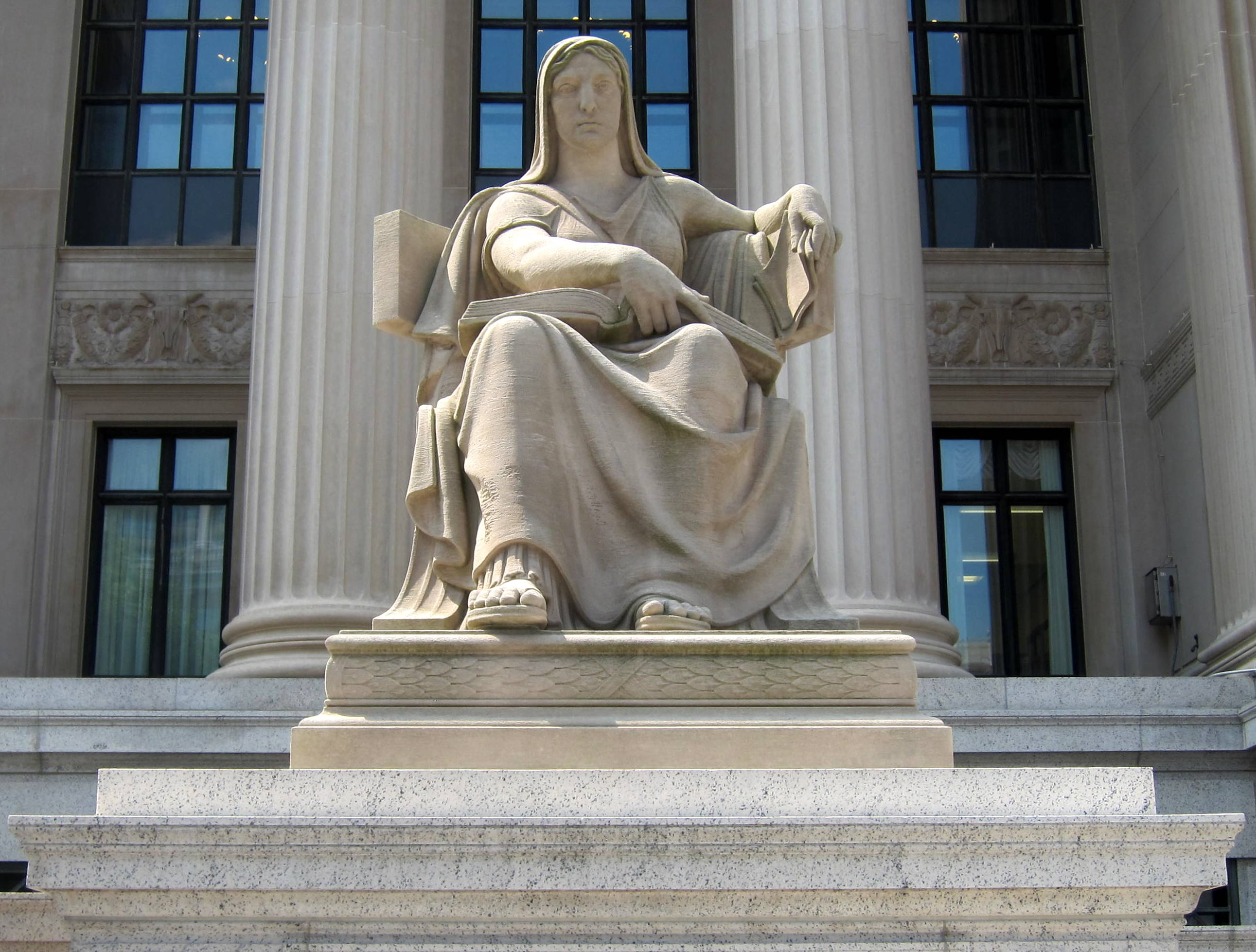 Future (1935, Robert Aitken) located on the northeast corner of the National Archives Building in Washington, D.C.